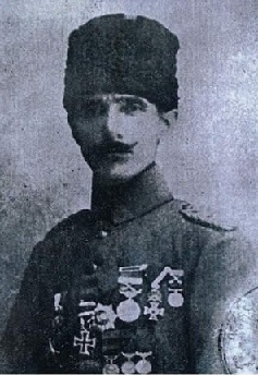 L. Colonel Shefik Bey (Aker)